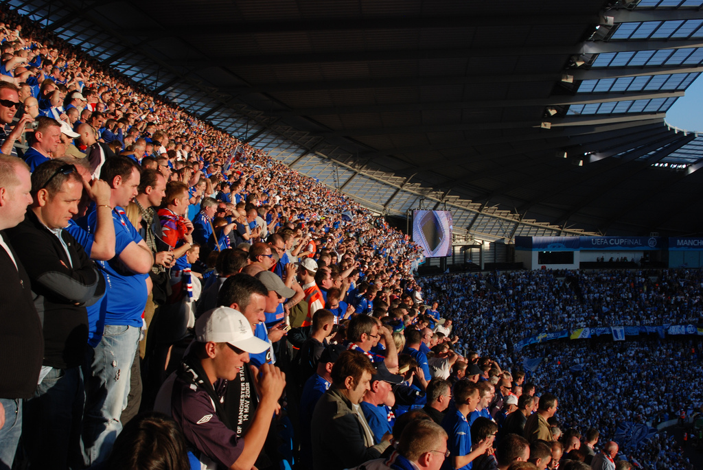 Rangers fans at the 2008 UEFA Cup Final.